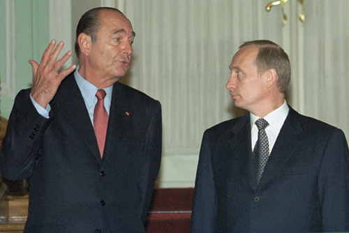 THE GRAND KREMLIN PALACE, MOSCOW. President Putin with French President Jacques Chirac at a document-signing ceremony.